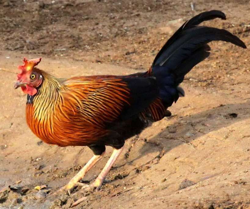 Sri Lanka Junglefowl, Yala, Sri Lanka.